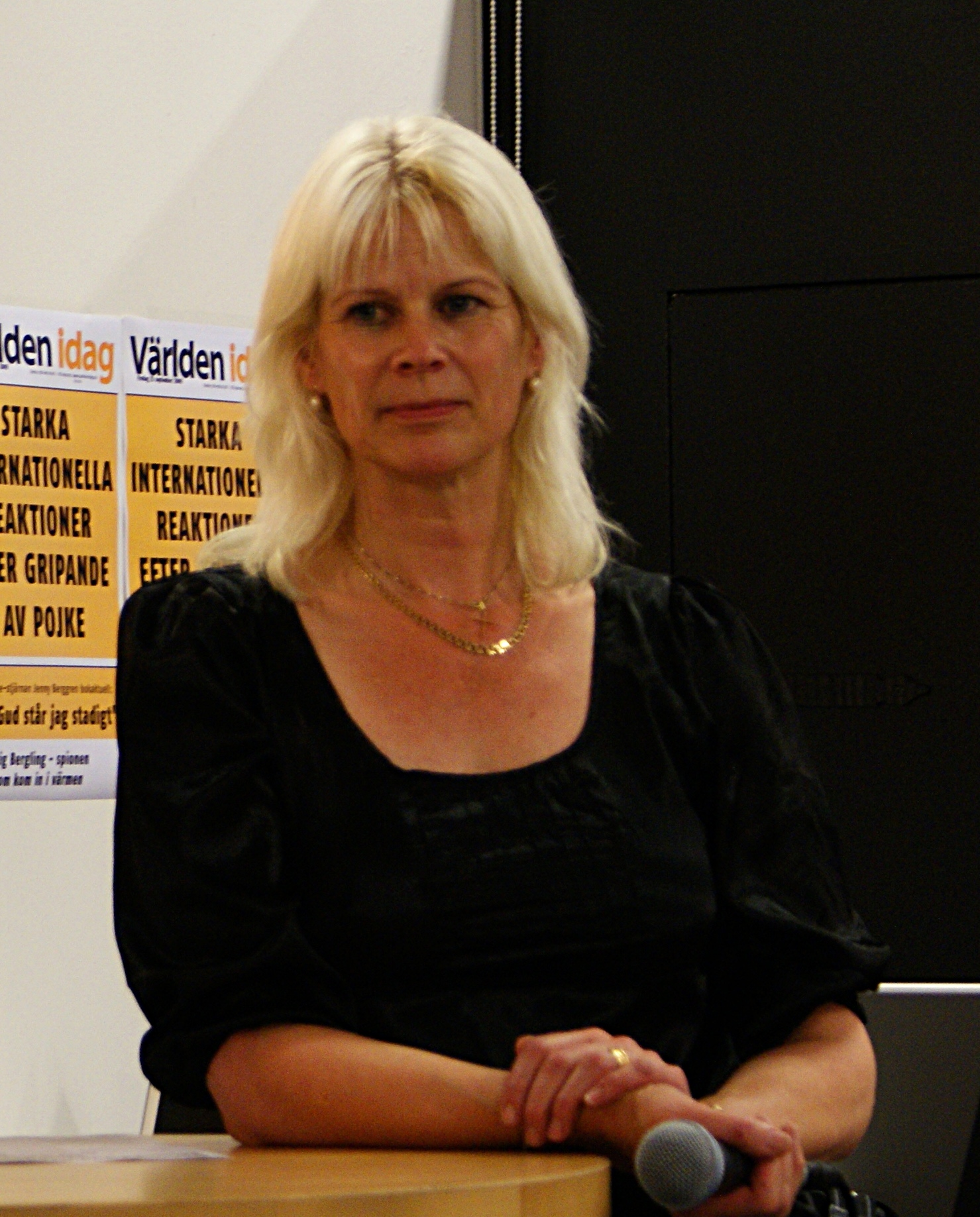 At the bookfair in Gothenburg 2009.